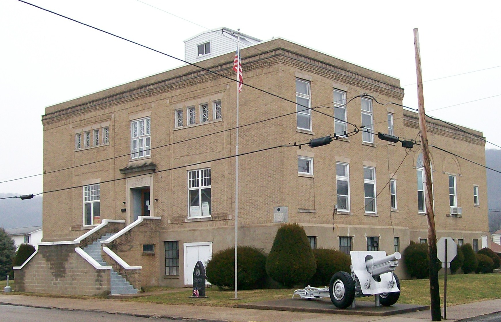 The War Memorial Building in New Martinsville, West Virginia. Picture taken from Virginia Street looking east from Main Street.